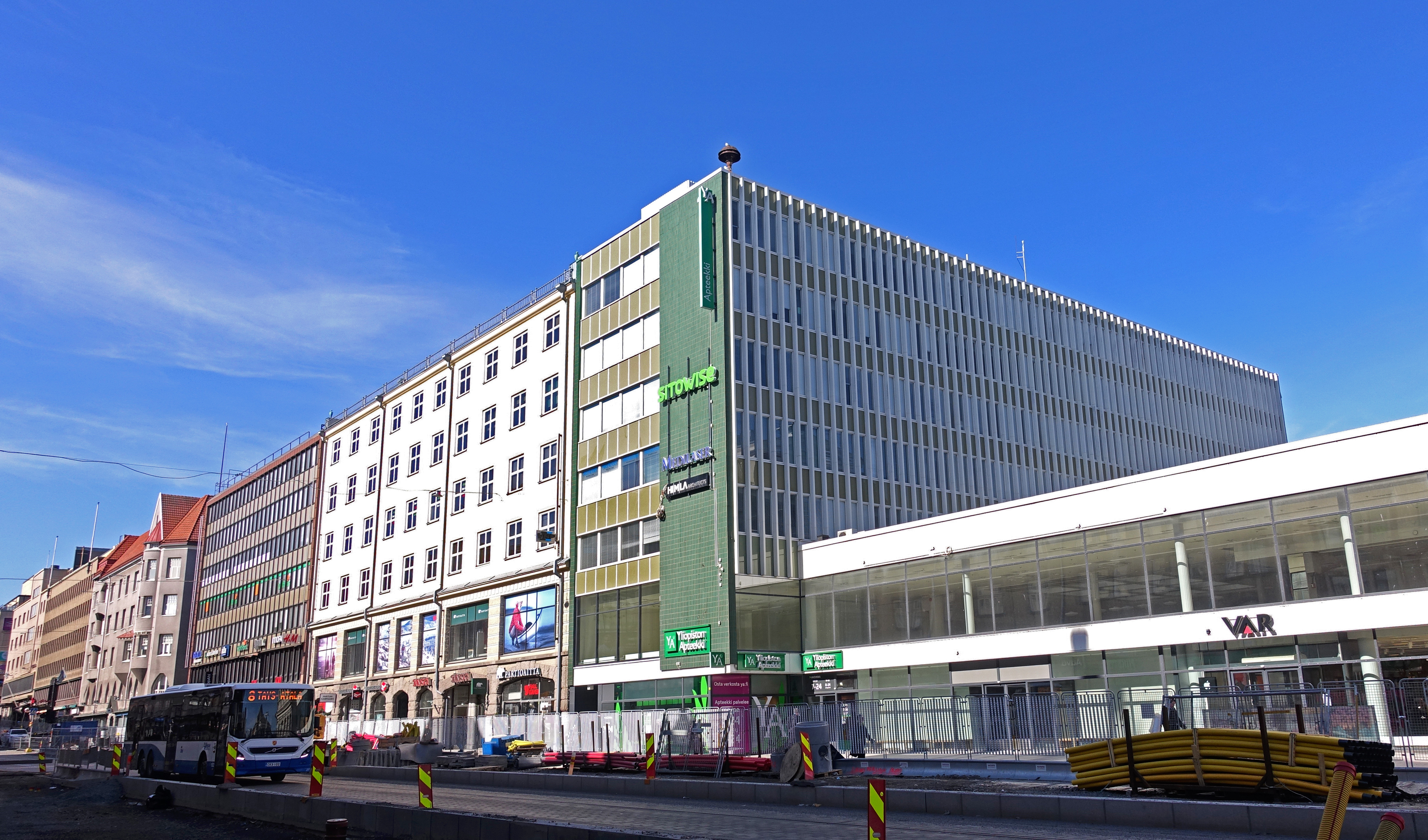 Tampere, Finland.